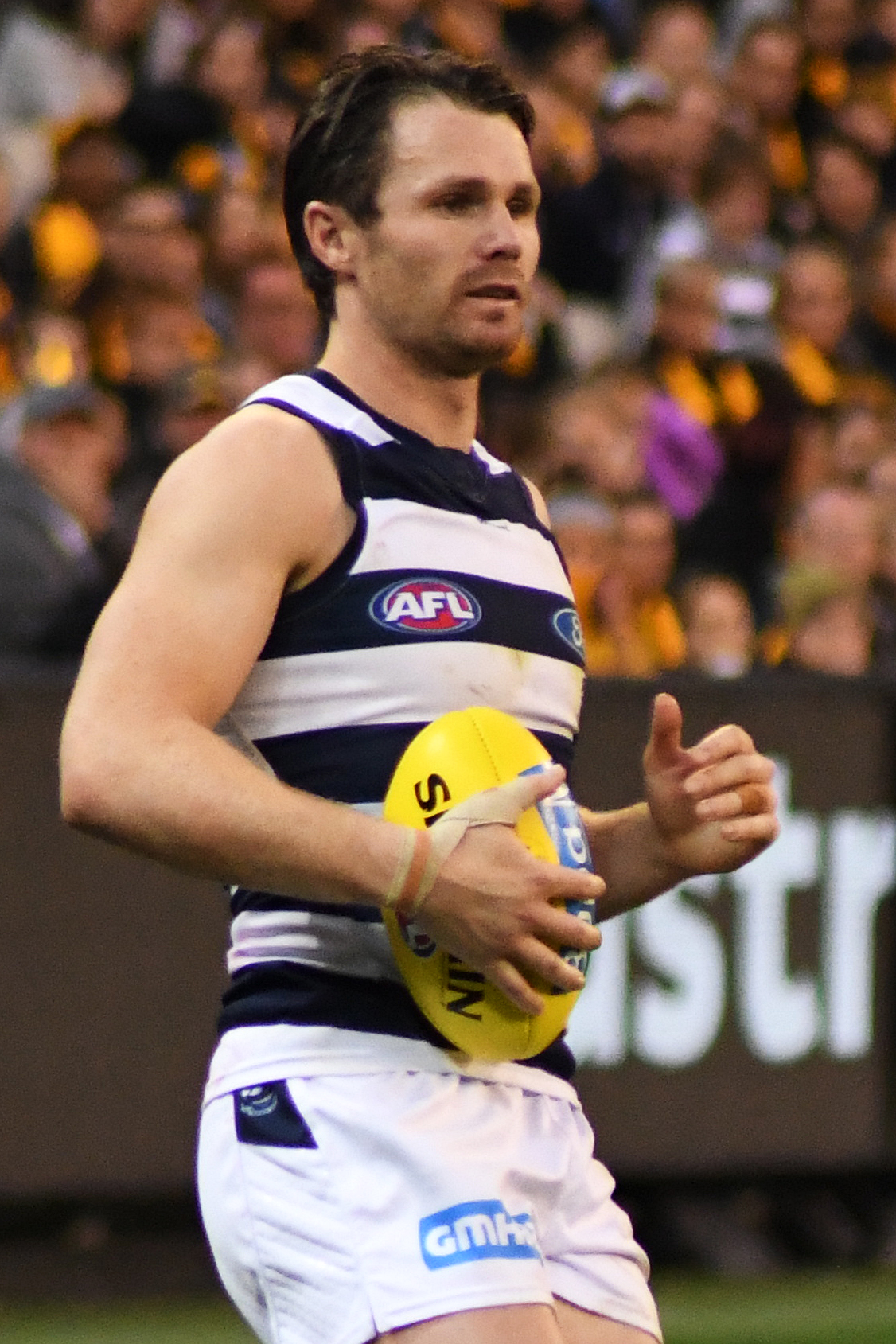 Patrick Dangerfield of Geelong during the 2019 AFL round 5 match between Hawthorn and Geelong at the Melbourne Cricket Ground on Monday, 22 April 2019 in Melbourne, Victoria.